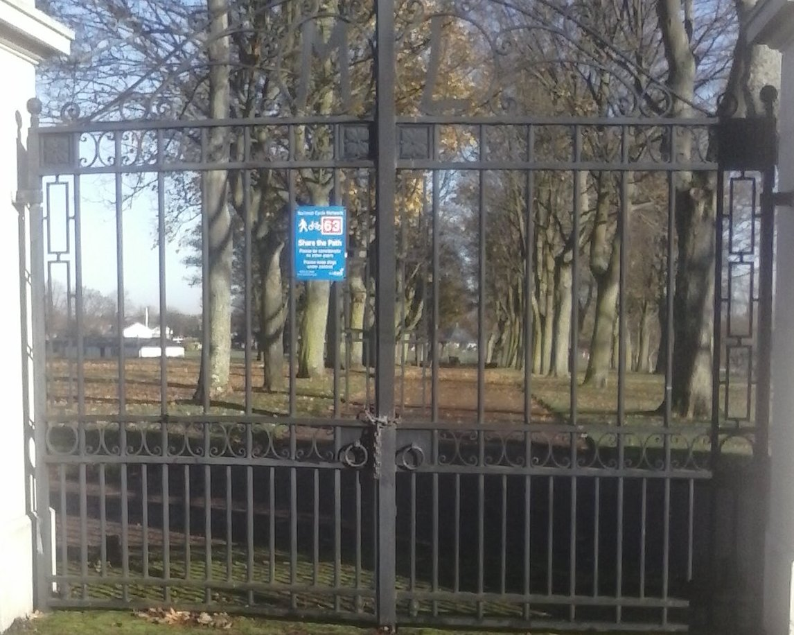 National cycle network route 63 at Maurice Lea Park Church Gresley